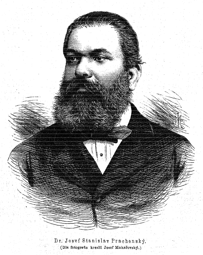 Portrait of Josef Stanislav Práchenský (1829-1893), Czech lawyer, journalist and politician.